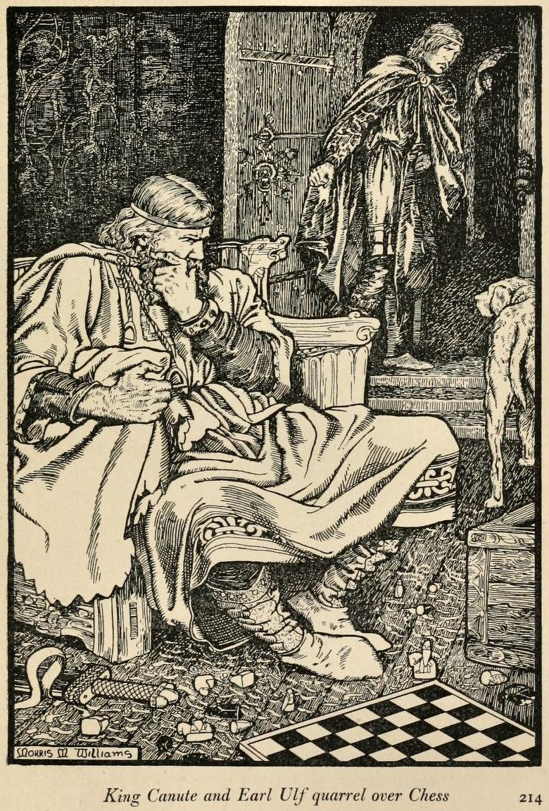 Chess game between king Cnut the great and earl Ulf Torgilsson